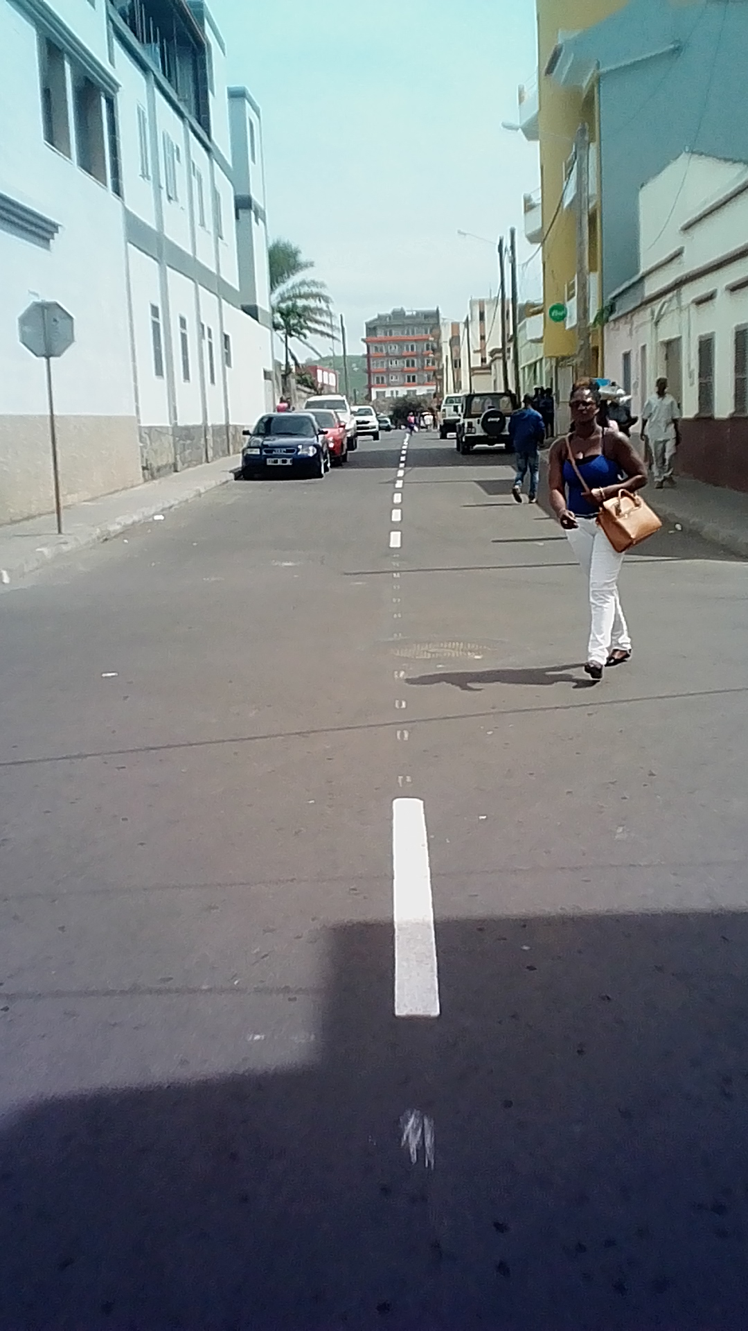 The Traz D'empa Street